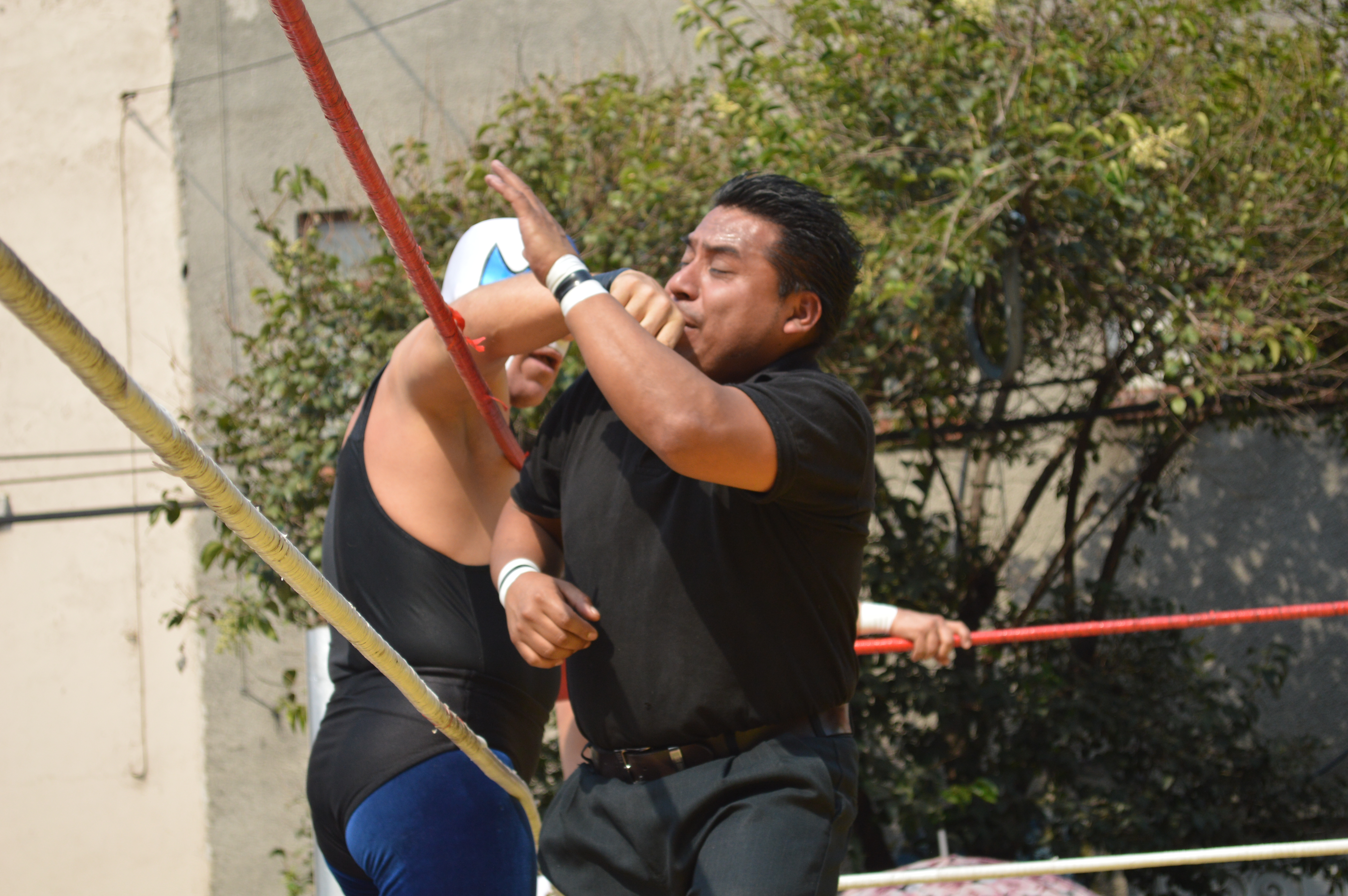 Atlantis and referee at CMLL lucha libre event part of Festival Día de Reyes Territorial Obrera Doctores in Mexico City